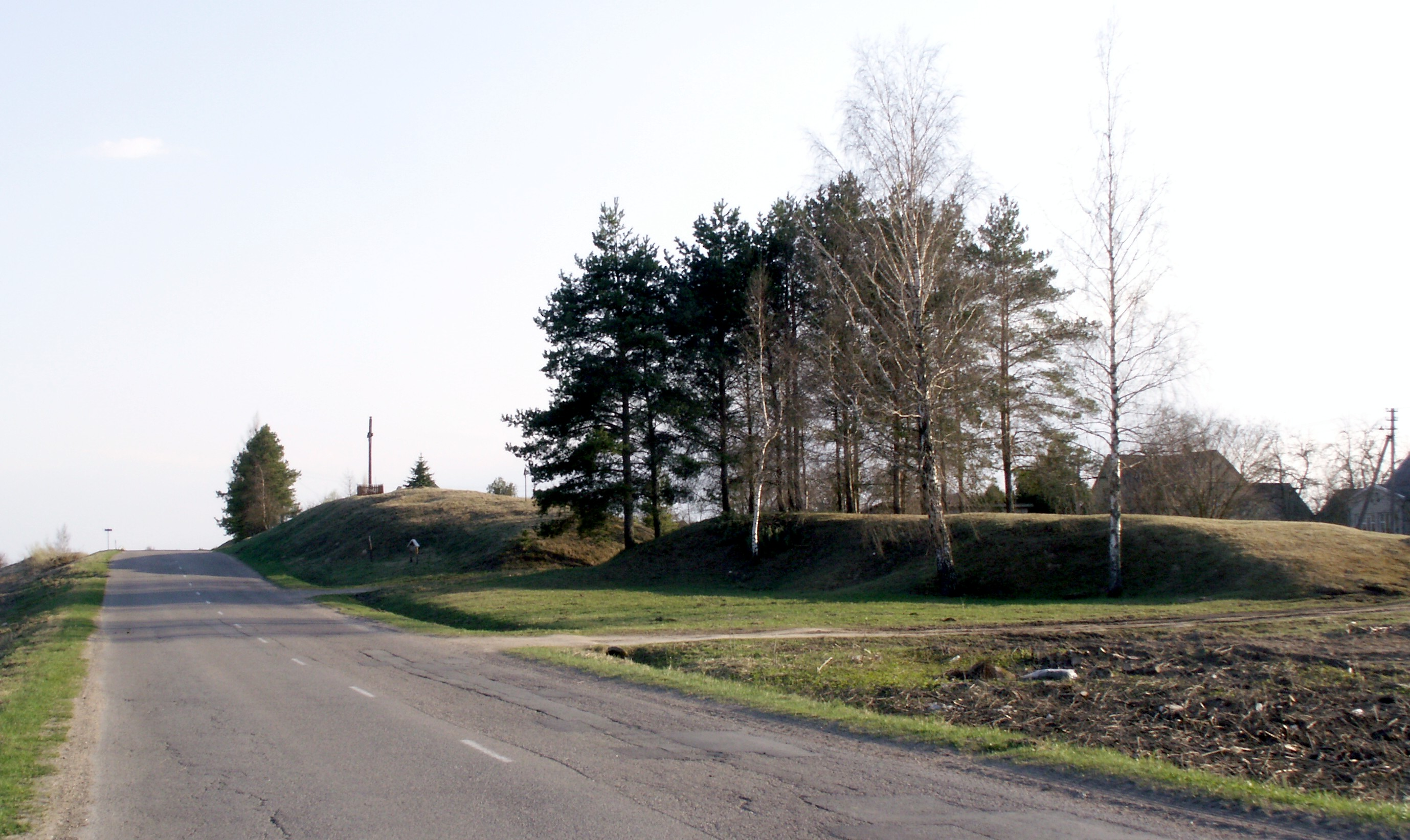 Johampolis hillfort, Kelmė district, Lithuania